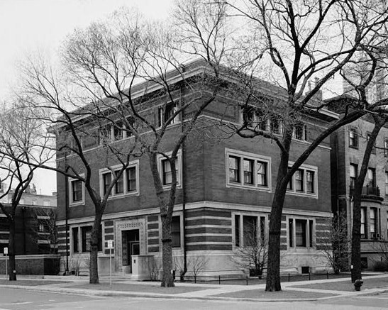 Albert F. Madlener House, 4 West Burton Place, Chicago (Cook County, Illinois) (Cropped) This file comes from the Historic American Buildings Survey (HABS), Historic American Engineering Record (HAER) or Historic American Landscapes Survey (HALS). These are programs of the National Park Service established for the purpose of documenting historic places. Records consist of measured drawings, archival photographs, and written reports. This tag does not indicate the copyright status of the attached work. A normal copyright tag is still required. See Commons:Licensing. This work is in the public domain in the United States because it is a work prepared by an officer or employee of the United States Government as part of that person’s official duties under the terms of Title 17, Chapter 1, Section 105 of the US Code. Note: This only applies to original works of the Federal Government and not to the work of any individual U.S. state, territory, commonwealth, county, municipality, or any other subdivision. This template also does not apply to postage stamp designs published by the United States Postal Service since 1978. (See § 313.6(C)(1) of Compendium of U.S. Copyright Office Practices). It also does not apply to certain US coins; see The US Mint Terms of Use. This file has been identified as being free of known restrictions under copyright law, including all related and neighboring rights. Object location41° 54′ 35″ N, 87° 37′ 45″ W